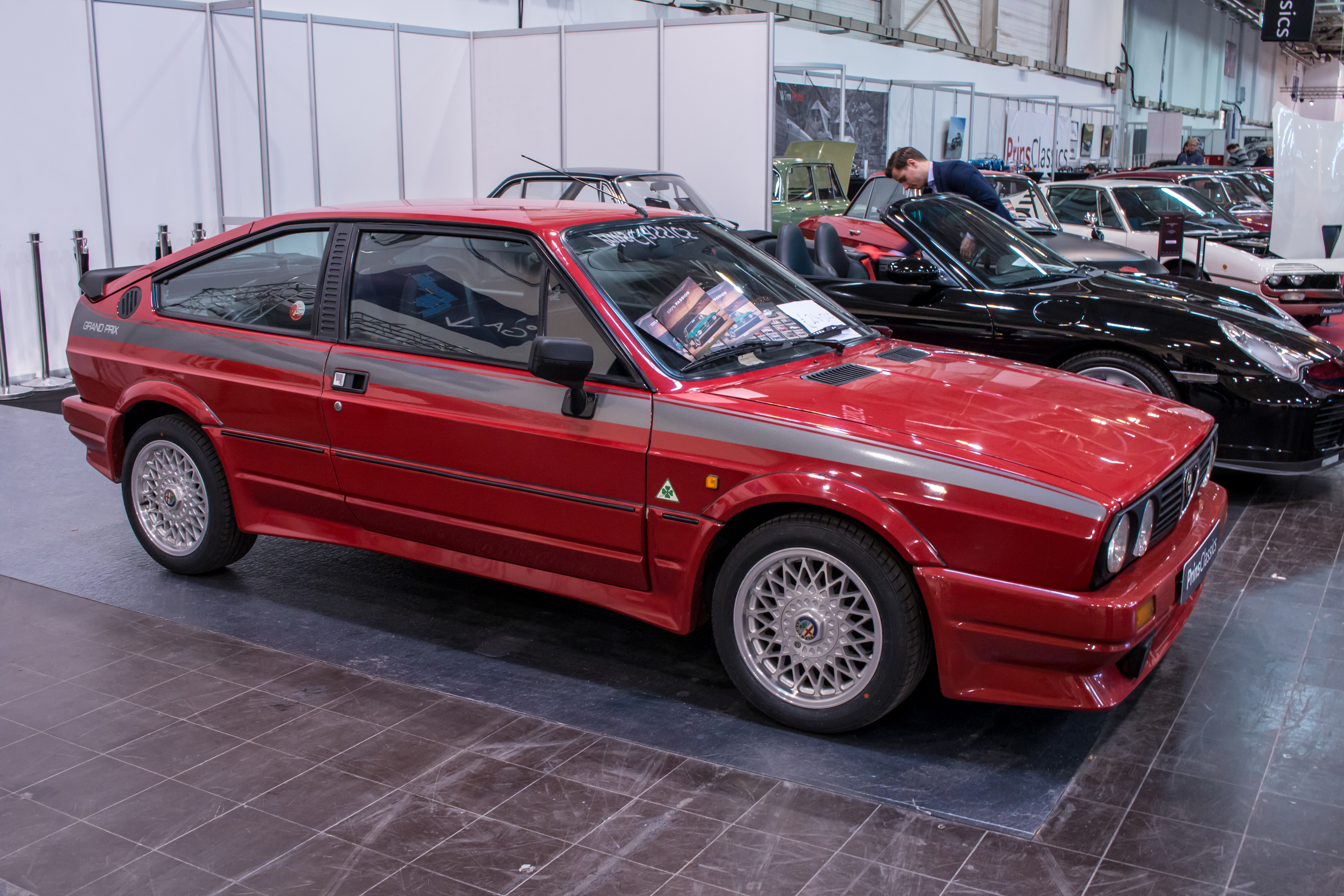 Alfa Romeo Sprint at Techno-Classica 2018, Essen